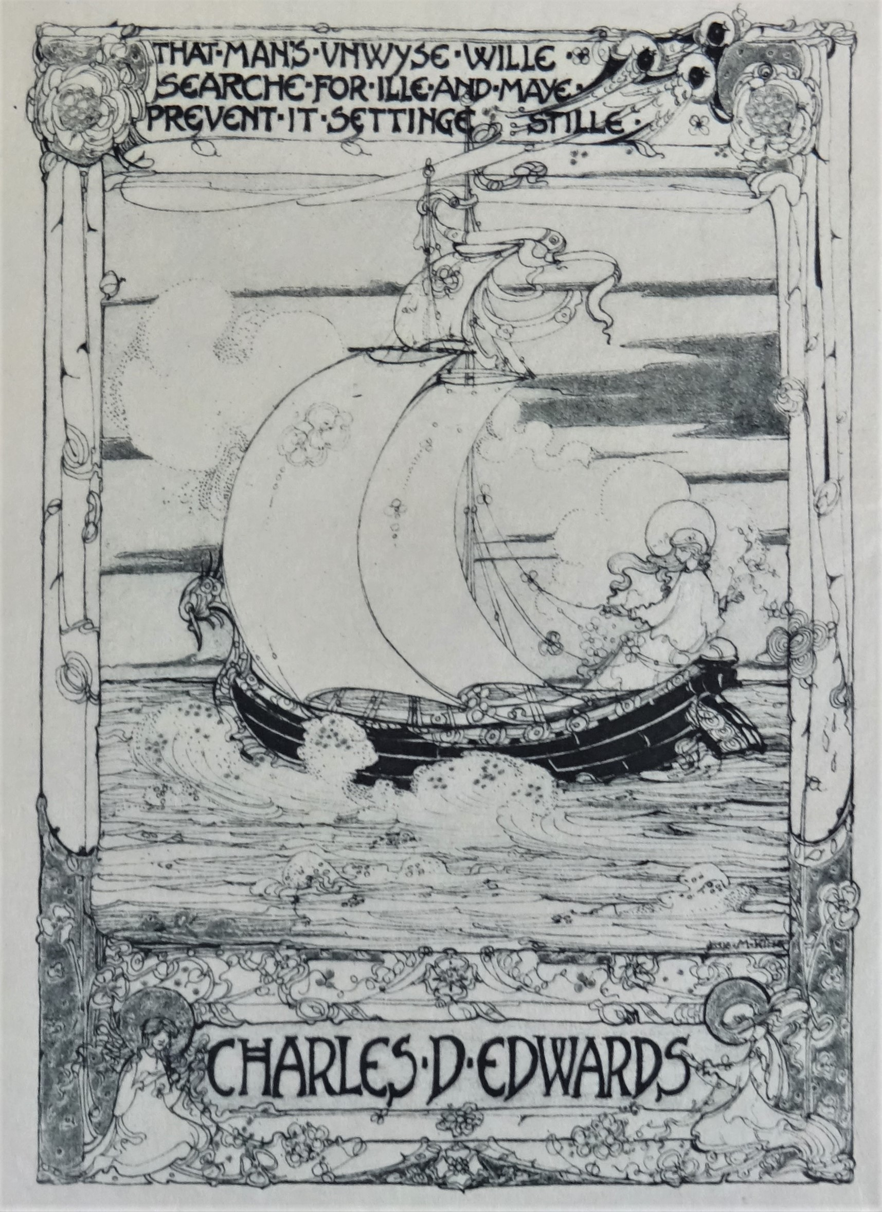 A 1907 Jessie M. King Bookplate for Charles D Edwards on Japanese Vellum.